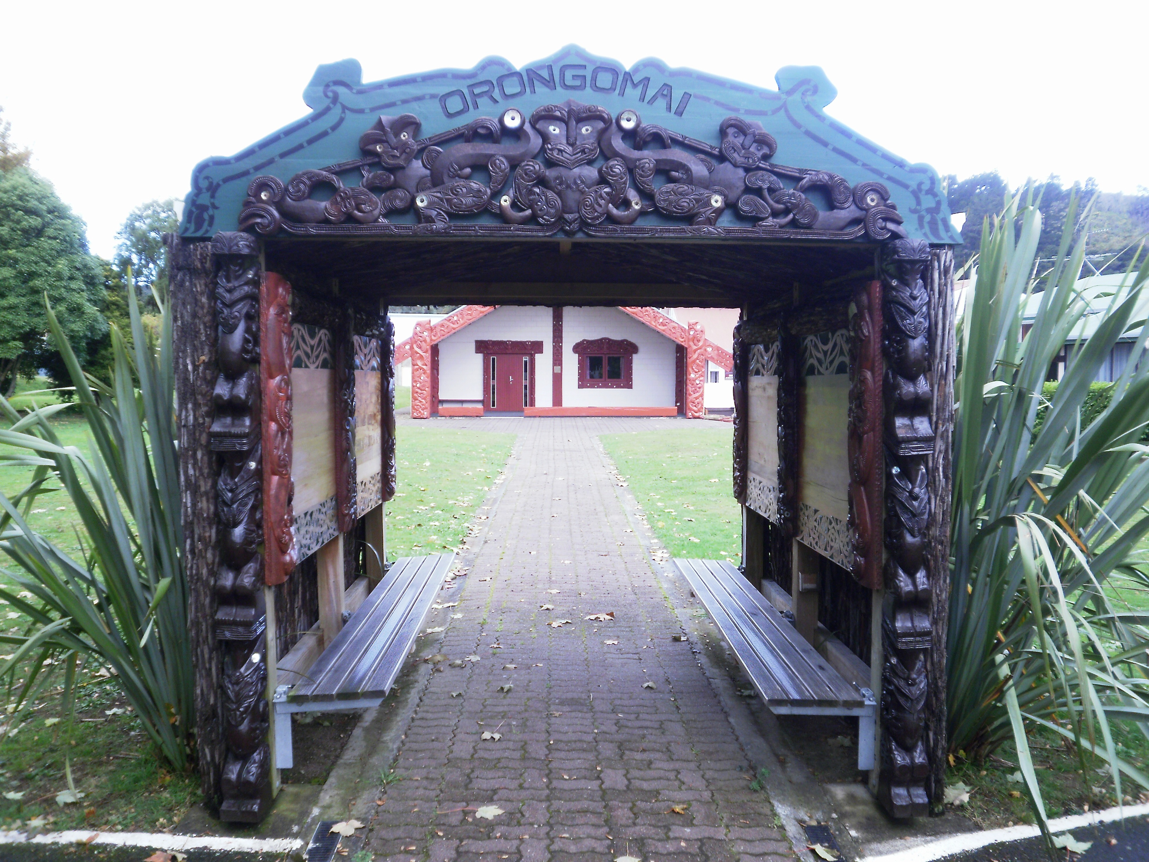 Orongomai Marae, view towards meeting house, in Upper Hutt, New Zealand. Opened in 1976.